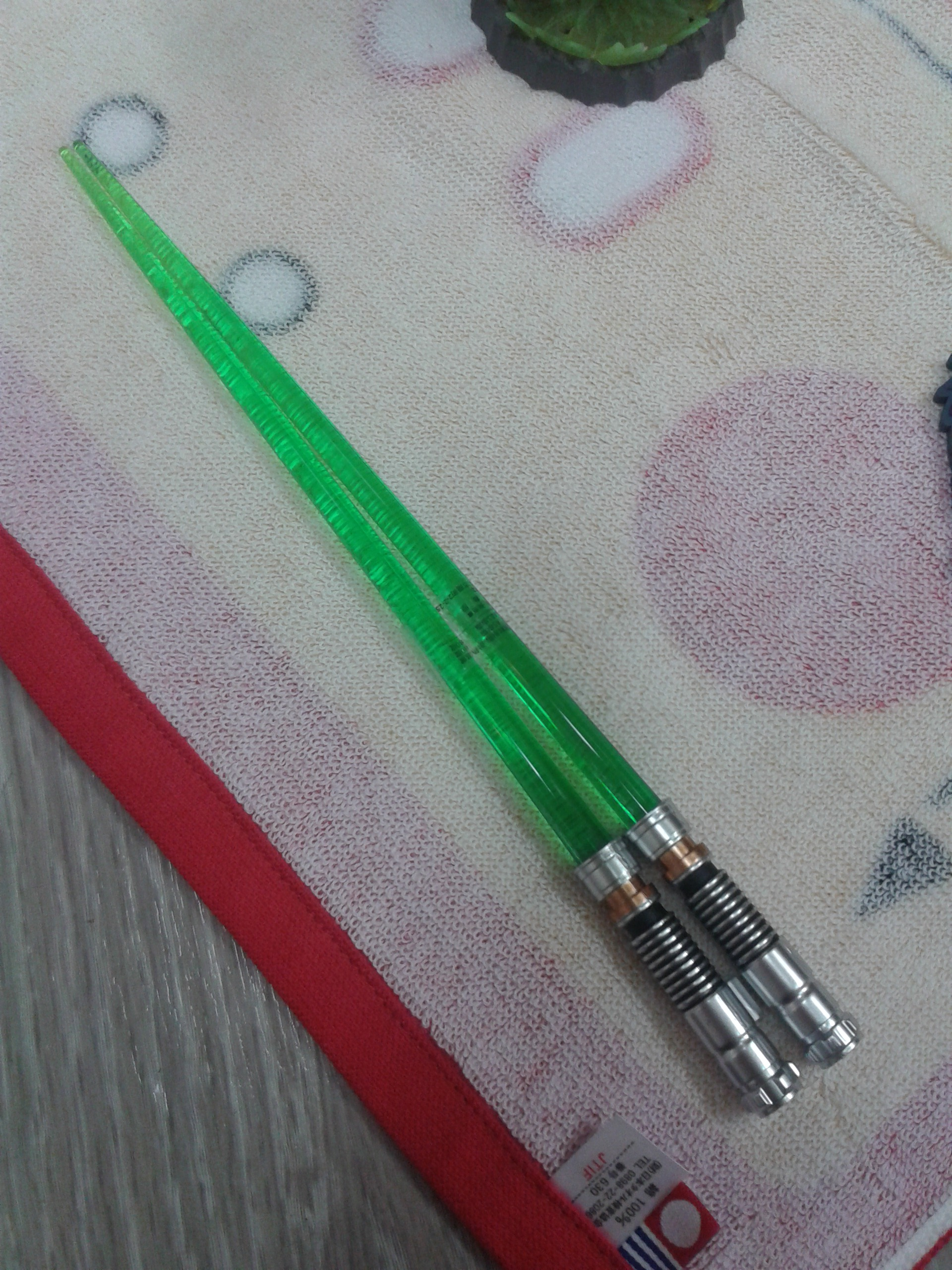 Lightsaber chopsticks bought in Akhibara Electric Town in summer 2015 (several months before the release of Star Wars: The Force Awakens. Chopsticks are in the style of the lightsaber used by Luke Skywalker in Return of the Jedi and are made of plastic. Other lightsaber designs, such as those of Darth Vader and Yoda, were also available.